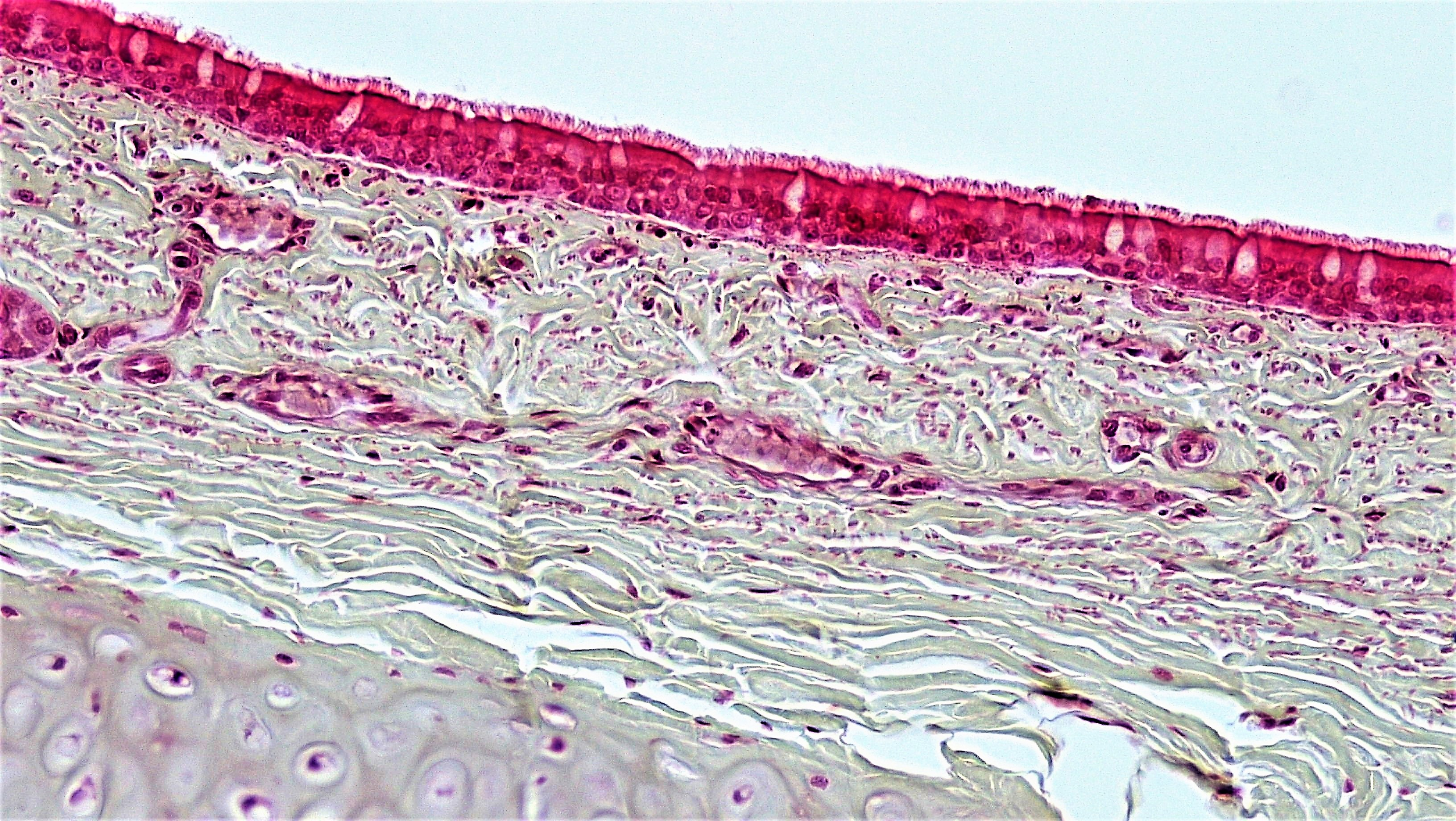 cross section: mammalian trachea magnification: 100x